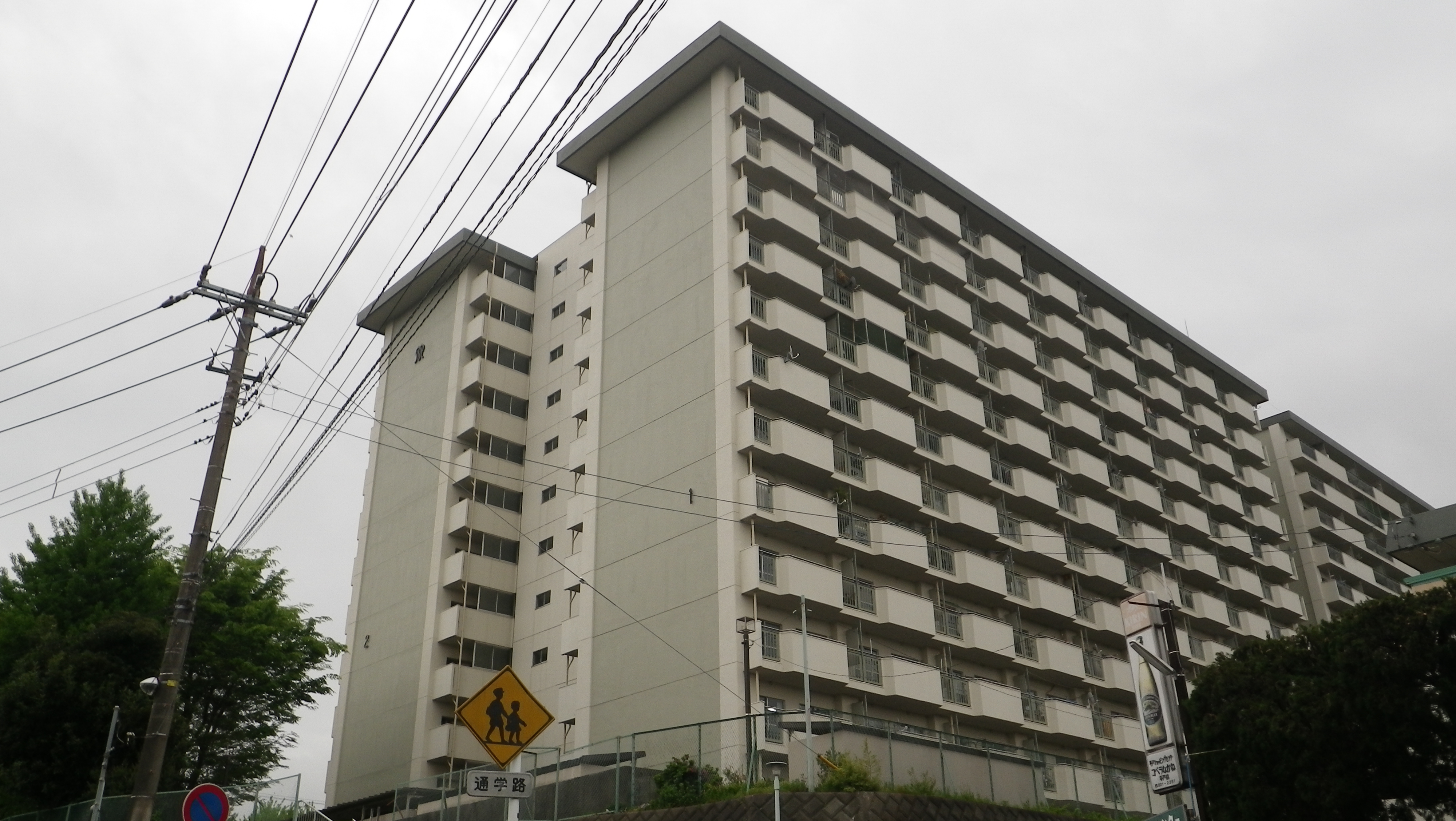 It is a photograph in the Hirado apartment of a housing complex in Japan Kanagawa Prefecture Yokohama City Totsuka Ward Hirado-cho 1174-1.